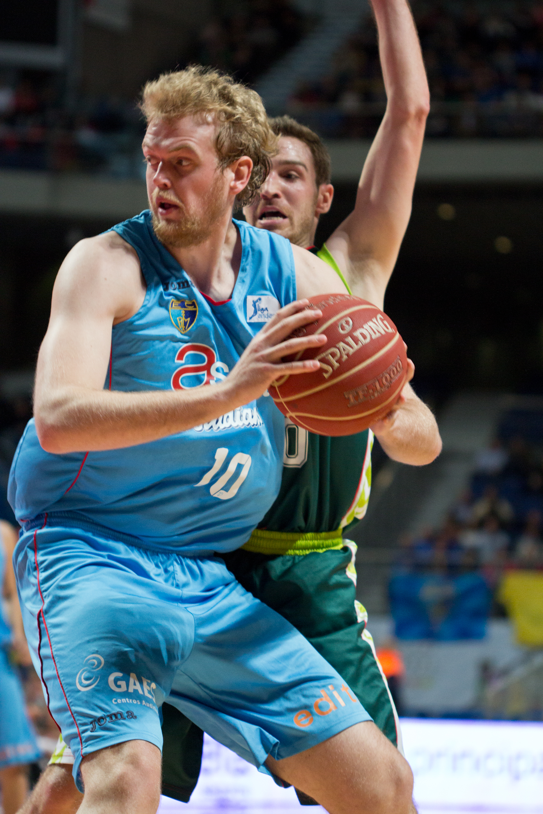 Daniel Clark and Txemi Urtasun. Game Estudiantes vs Unicaja Málaga.